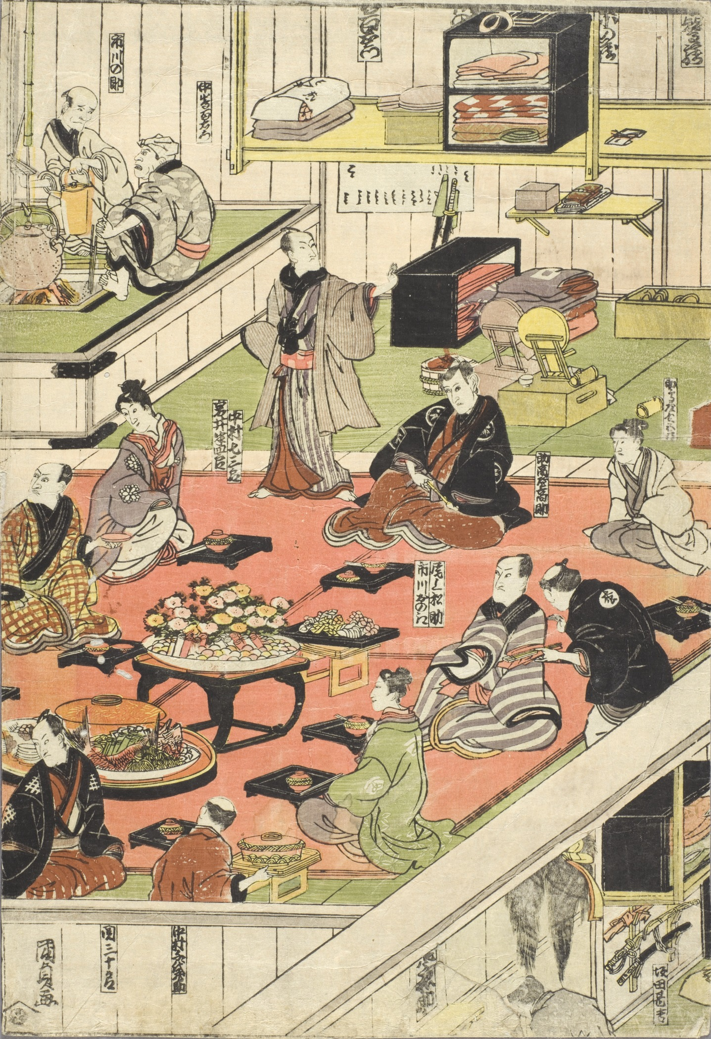 1810s Prints; woodcuts Color woodblock print; one sheet of a diptcyh Image and Sheet: 14 11/16 x 10 in. (37.31 x 25.4 cm) The Joan Elizabeth Tanney Bequest (M.2006.136.306) Japanese Art